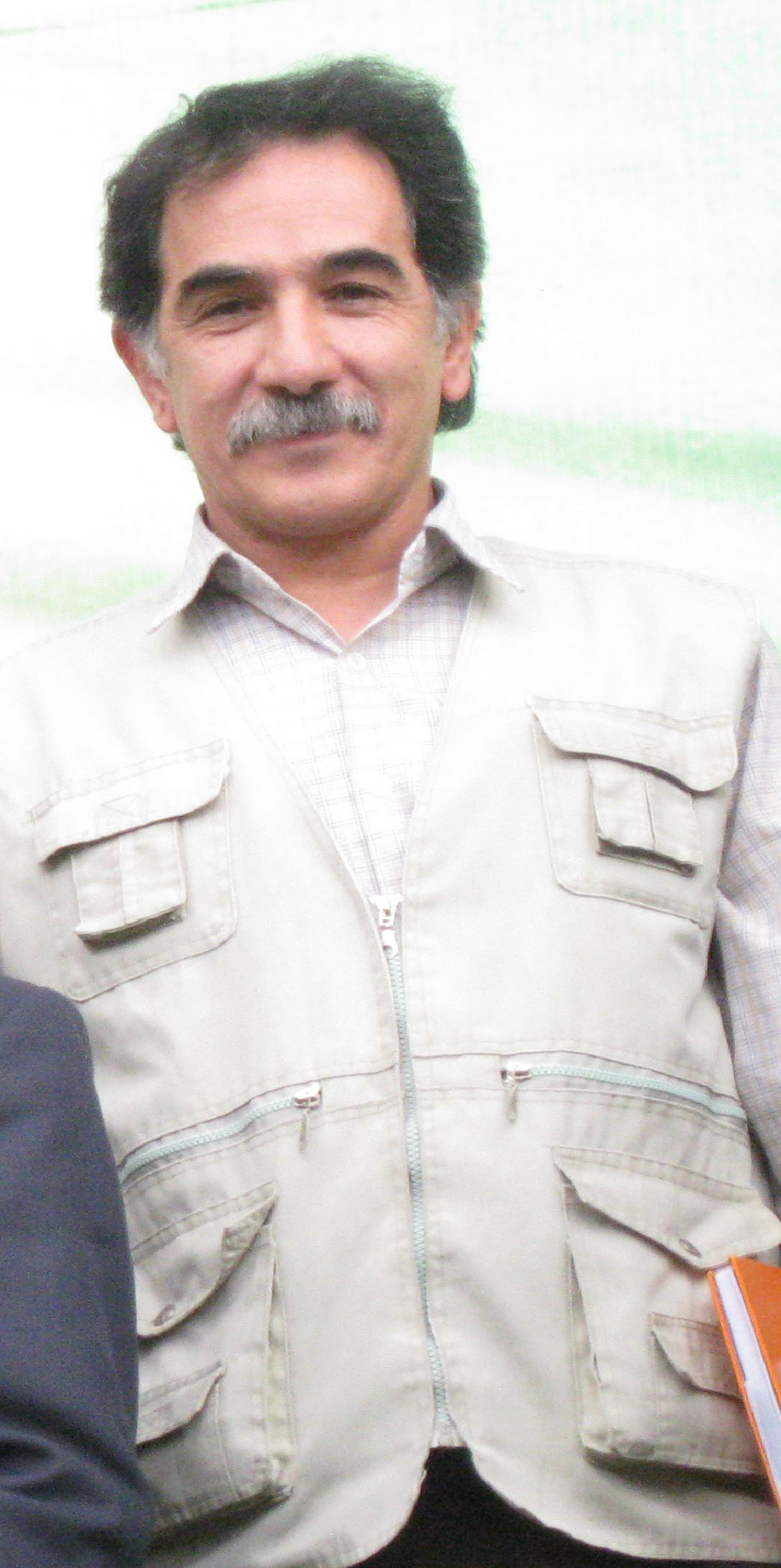 Hushang jafari azeri poet